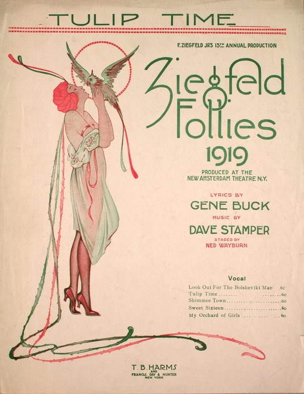 Sheet music cover with "Tulip Time" referencing Ziegfeld Follies and the New Amsterdam Theatre